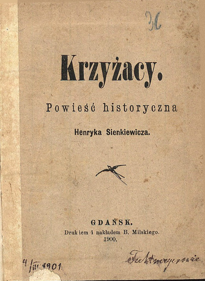 novel